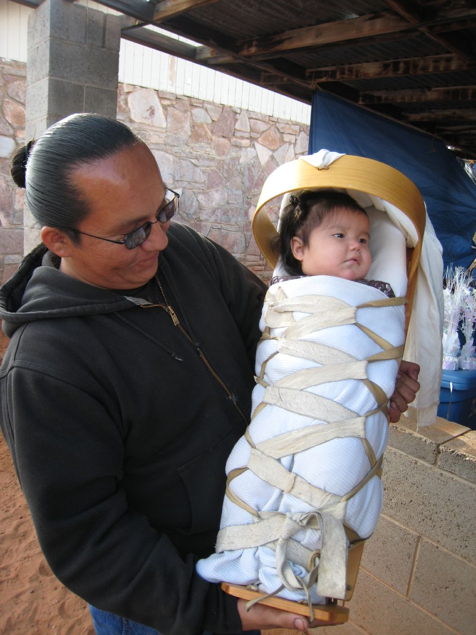 Navajo cradle board traditional baby carrier